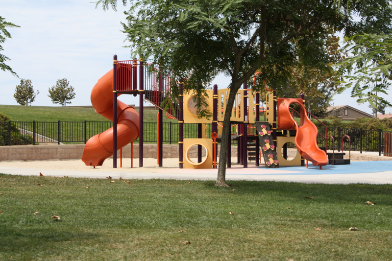 Photo of Heritage Park in 4S Ranch (courtesy of 92127 Magazine)